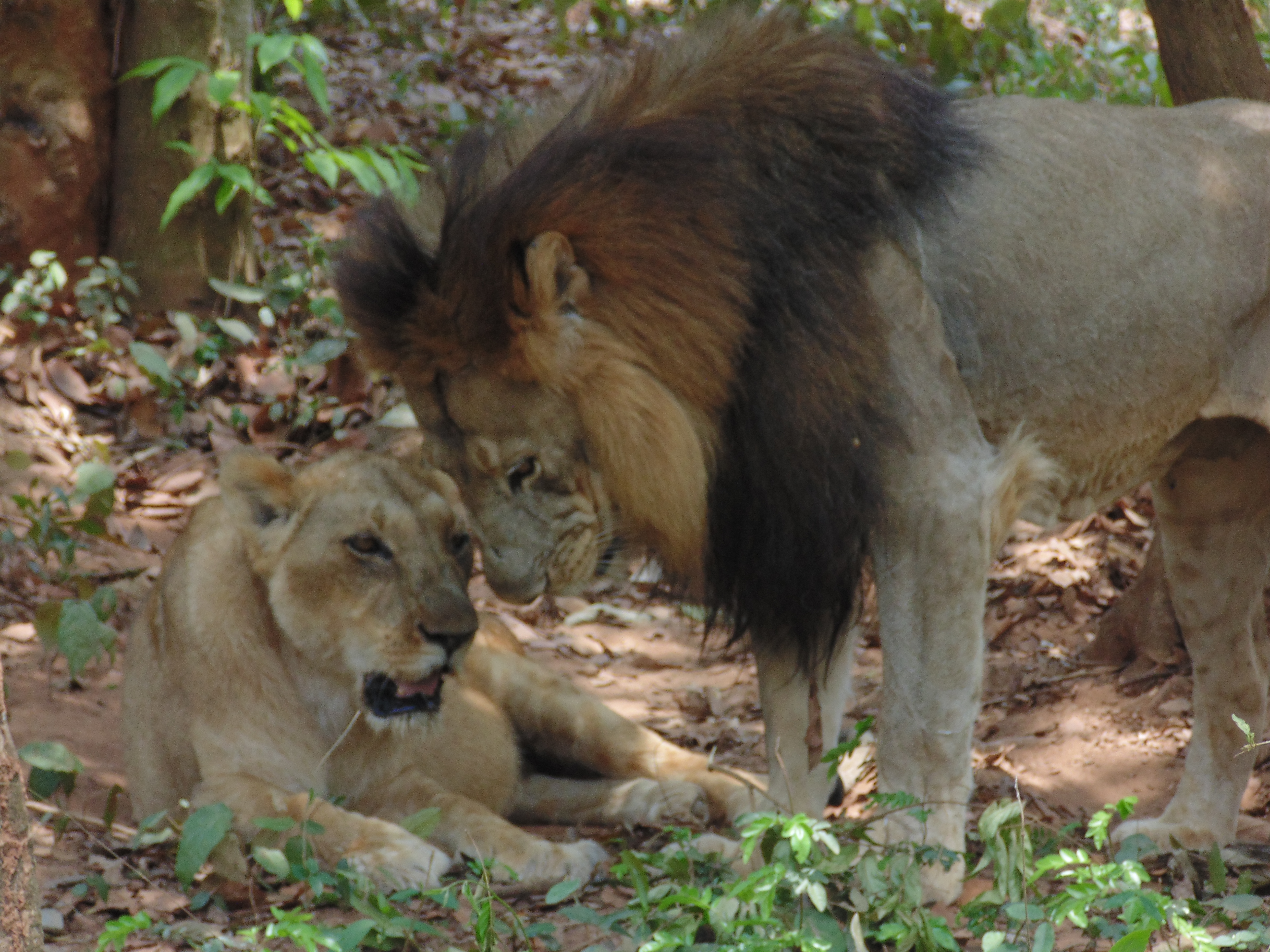 ooooooooo omg!!!!!!!!!!!!!